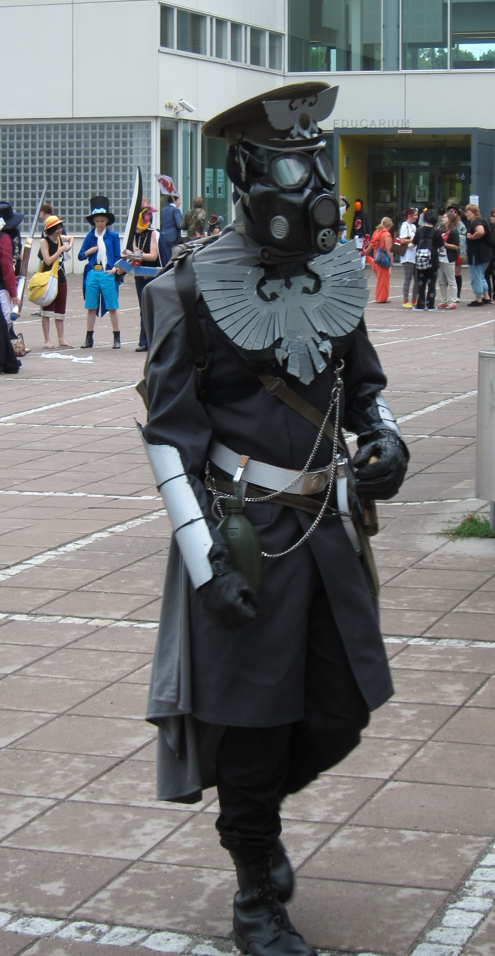 Iron Sky nazi in the Finncon/Animecon 2011, Turku, Finland